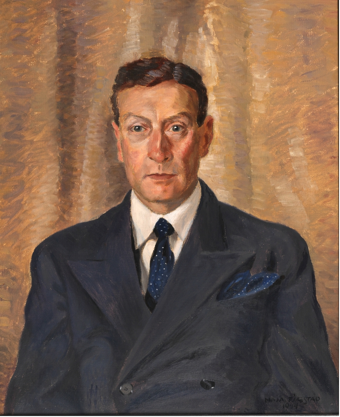 Portrait of Carl Gustaf Widlund (1887-1968), a Swedish damask Weaver in Tranjerdstorp near Karlstad in Värmland, by the artist Maja Fjaestad (1873-1961) from the Rackstad Group in Arvika, in 1944.